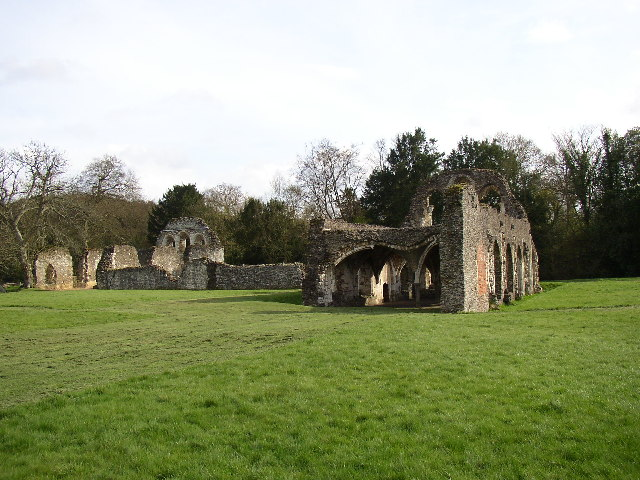 Waverley Abbey, Farnham